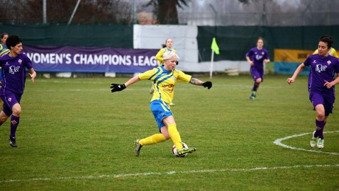 LanaClelland